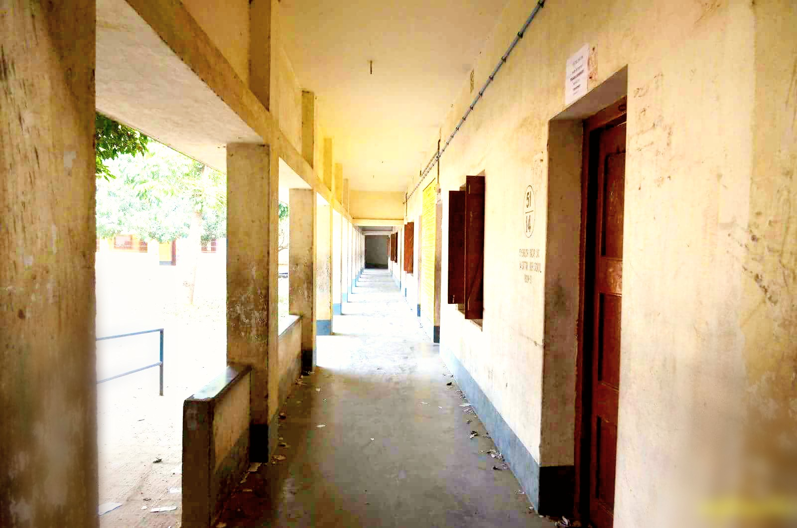 Sattari High School Interior